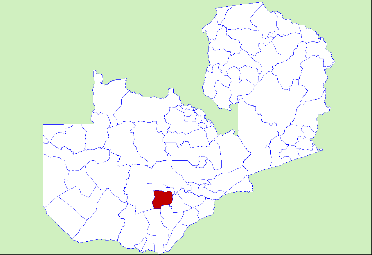 District locator in Zambia